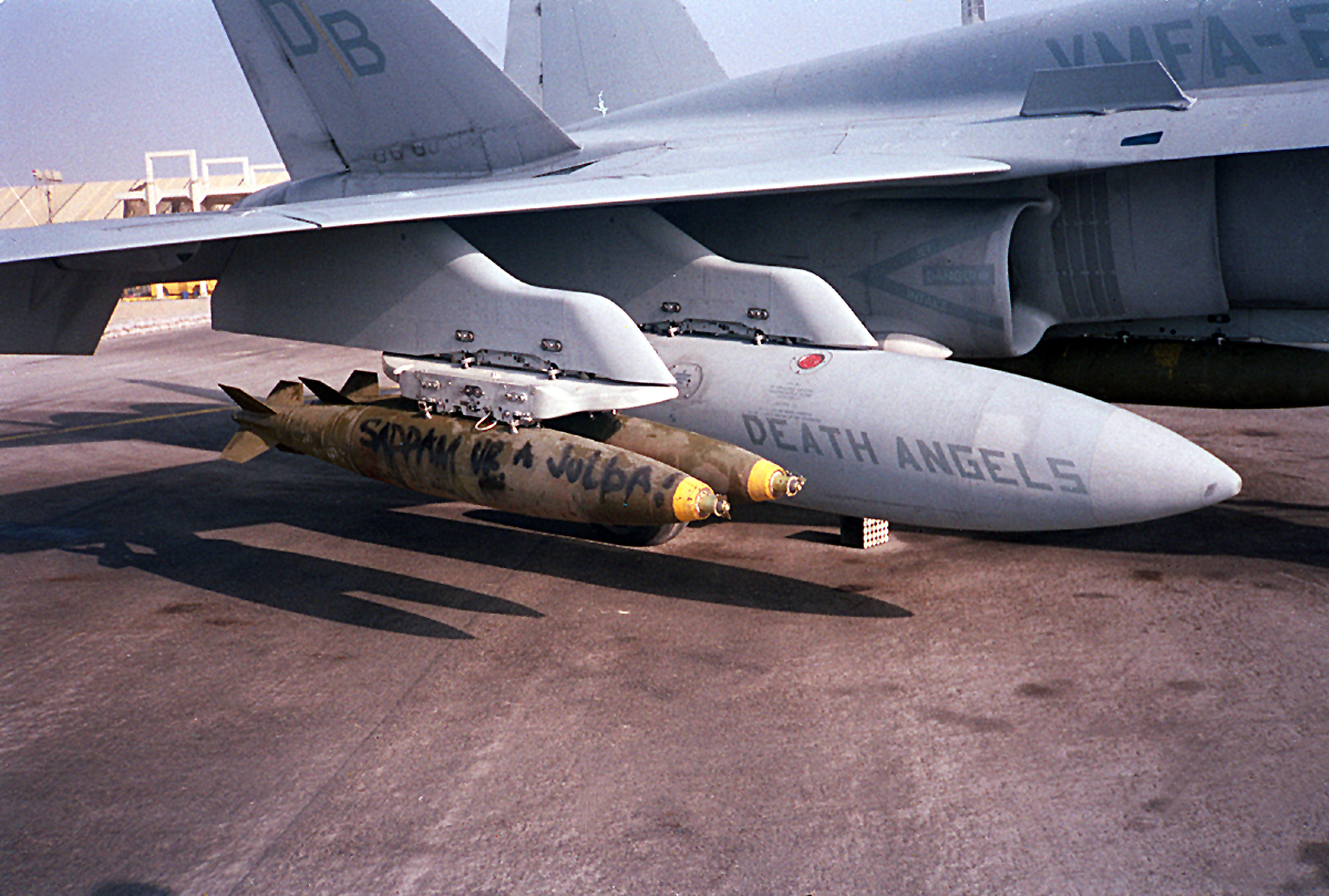 A view of the ordnance load (two 227 kg Mk 82 bombs) of a McDonnell Douglas F/A-18C Hornet aircraft of U.S. Marine Corps fighter-bomber squadron VMFA-235 Death Angels at Al Jubail airfield, Saudi Arabia, during Operation “Desert Storm” on 1 February 1991.